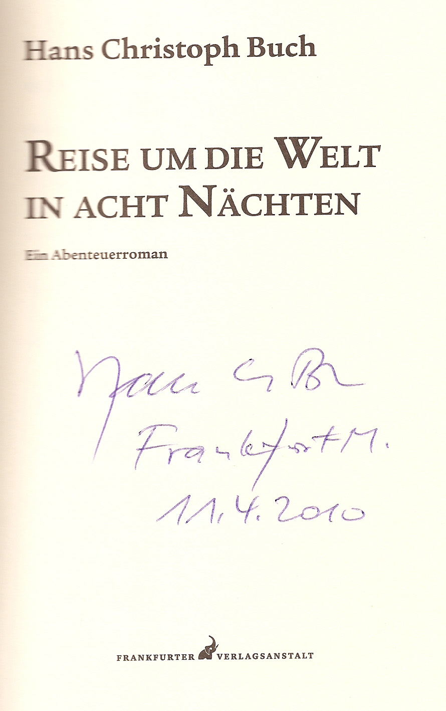 Autograph from Hans Christoph Buch, German writer.